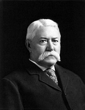 Whipple Van Buren Phillips(November 22, 1833 - March 28, 1904) was an American businessman from Providence, Rhode Island who also had mining interests in Idaho. He was most notable as the grandfather of H. P. Lovecraft whom he raised with his daughters and encouraged to have an appreciation of literature especially classical literature and English poetry.